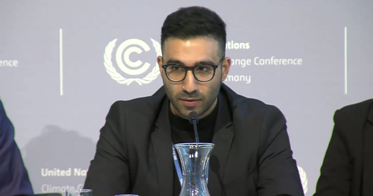 Ahmed Al-Qassam at the UN Climate Change Conference